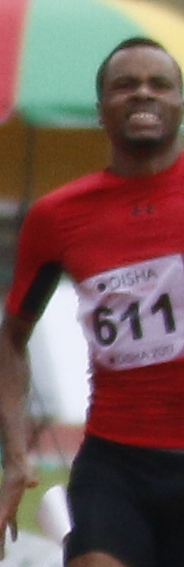 Athletes during 22nd Asian Athletics Championships in Bhubaneswar.